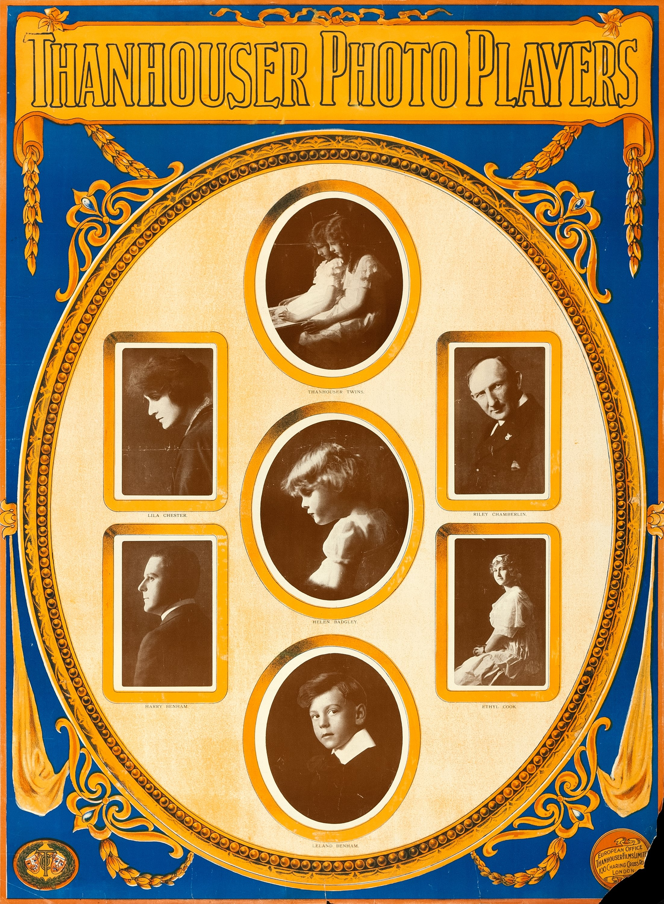 Thanhouser Photo Players British One Sheet (28" X 38").